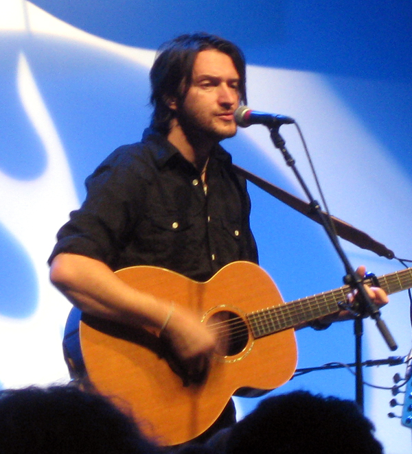 Matthew Perryman Jones during a performance in Menomonie, WI.